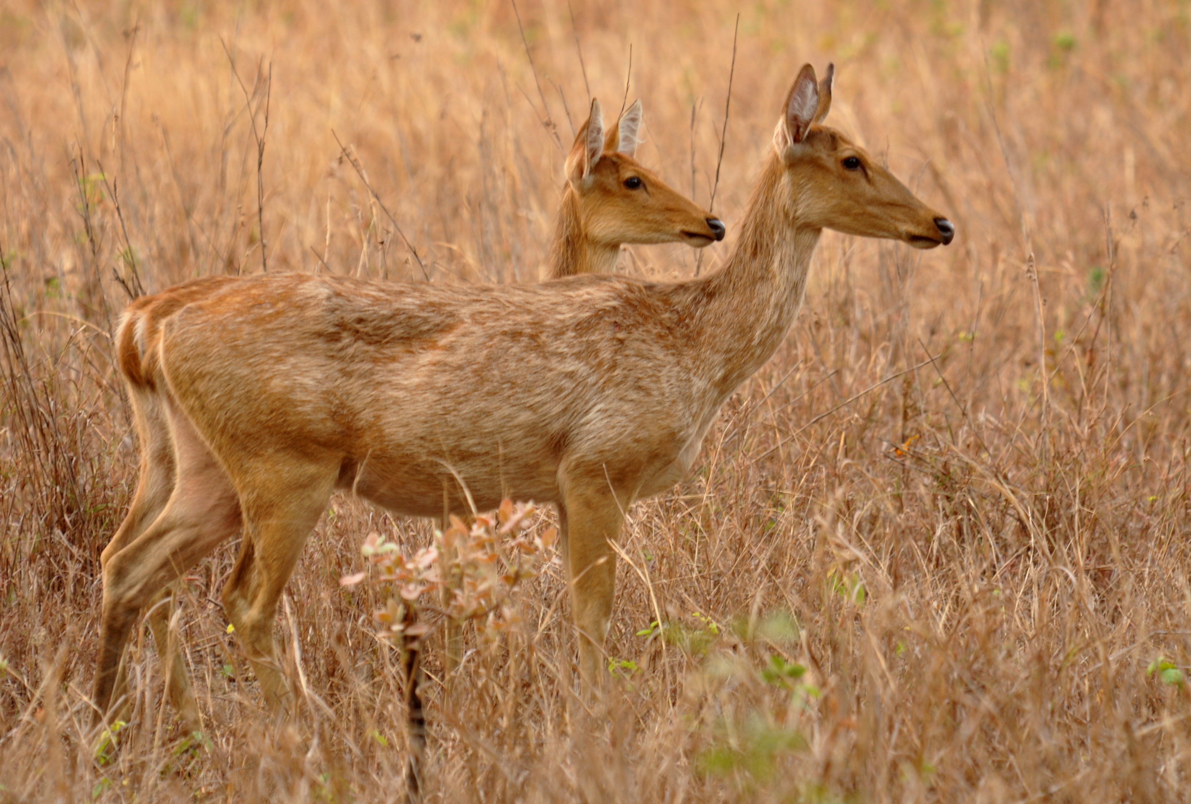 Female barasingha deer in Kanha meadows, Central India